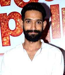 Vikrant Massey in 2015